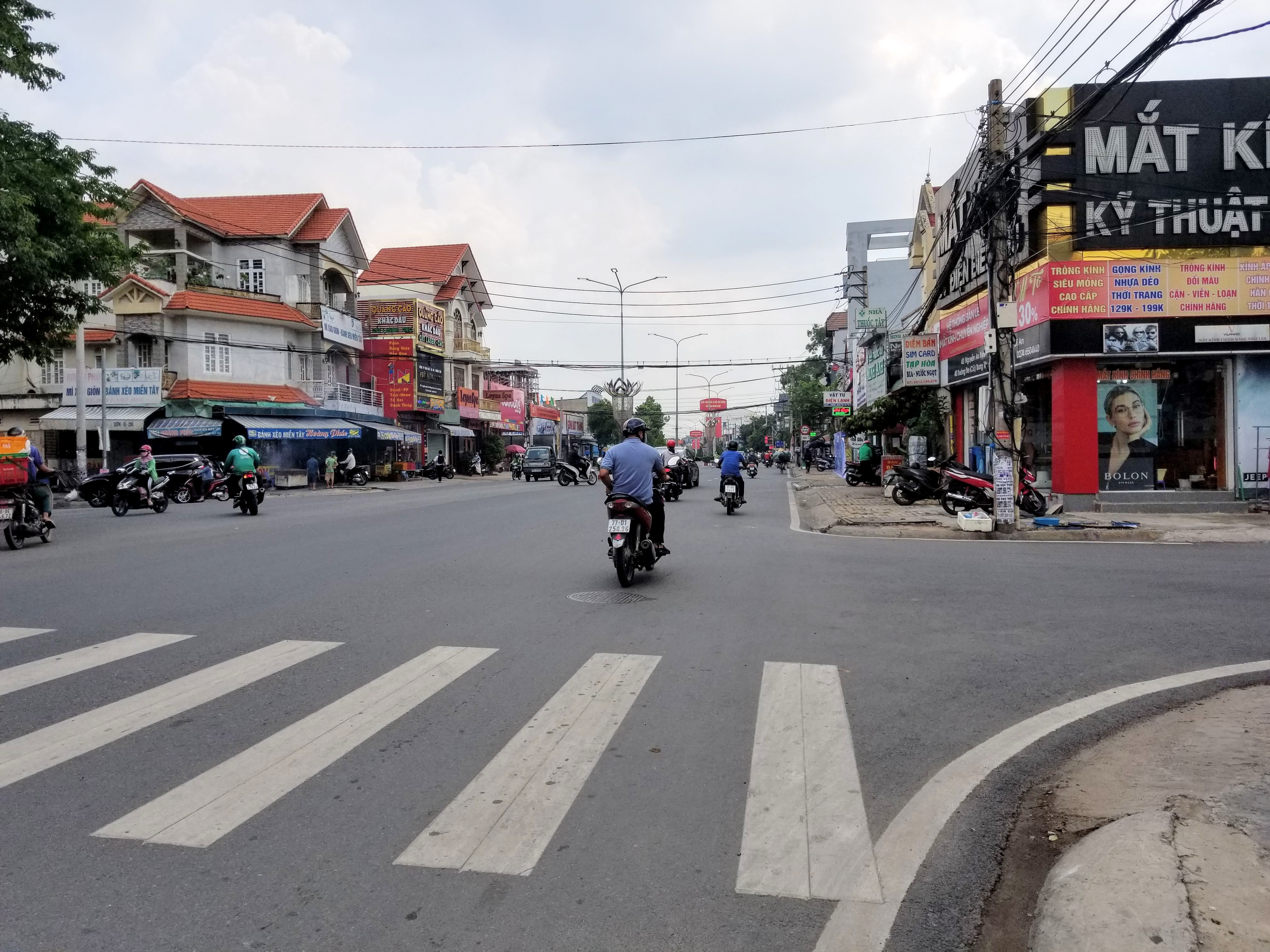 Street in Di An